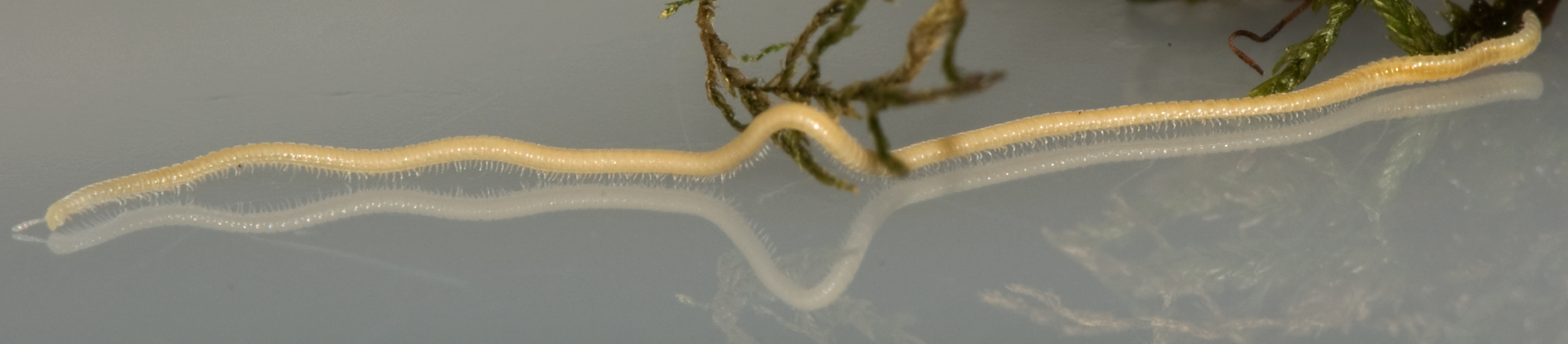 Female Illacme plenipes (specimen # MIL0020) with 618 legs.